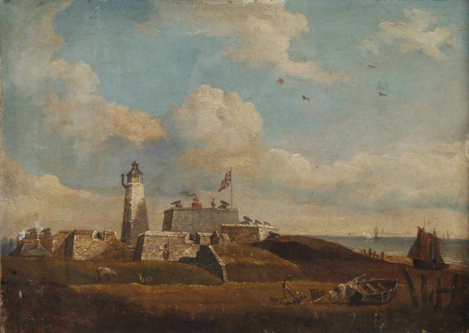 Southsea Castle. Oil on canvas. 25 x 35 cm.